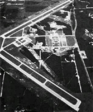 The Calverton Executive Airpark in the Town of Riverhead, Suffolk County, New York, United States in 1979-80. It was then the Naval Weapons Industrial Reserve Plant which was owned by the United States Navy and used to assemble, test, refit and retrofit jets built by the Grumman Corporation on Long Island.